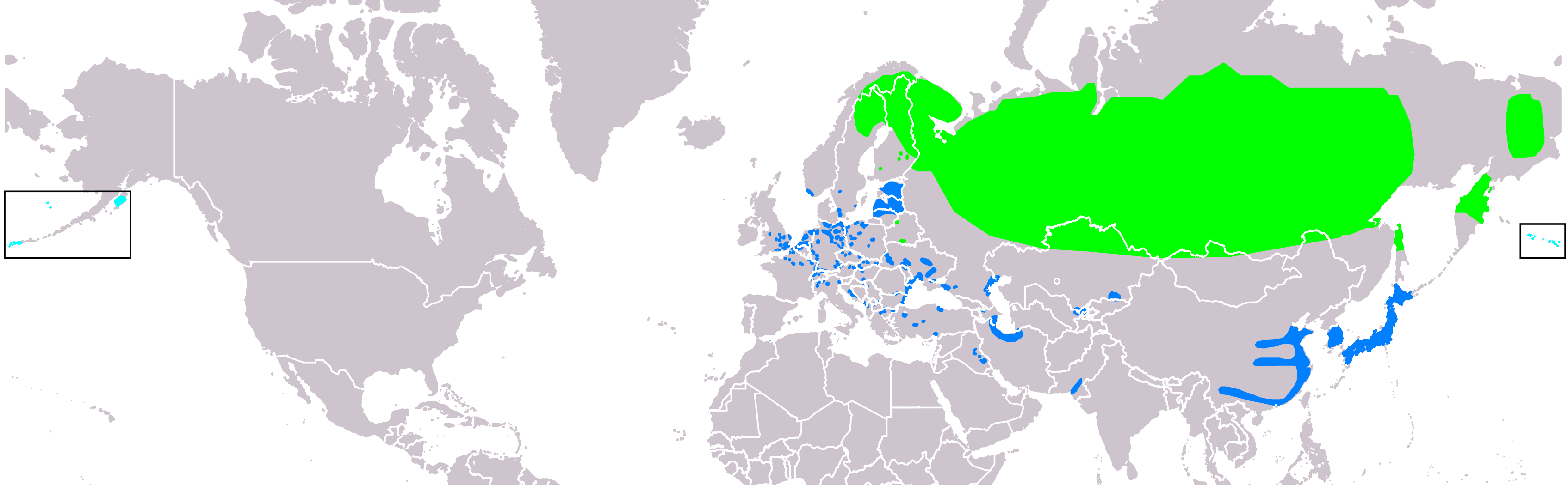 Distribution map of smew (Mergellus albellus) according to IUCN version 2018.2 , Legend: Extant, breeding (#00FF00), Extant, passage (#00FFFF), Extant, non-breeding (#007FFF)